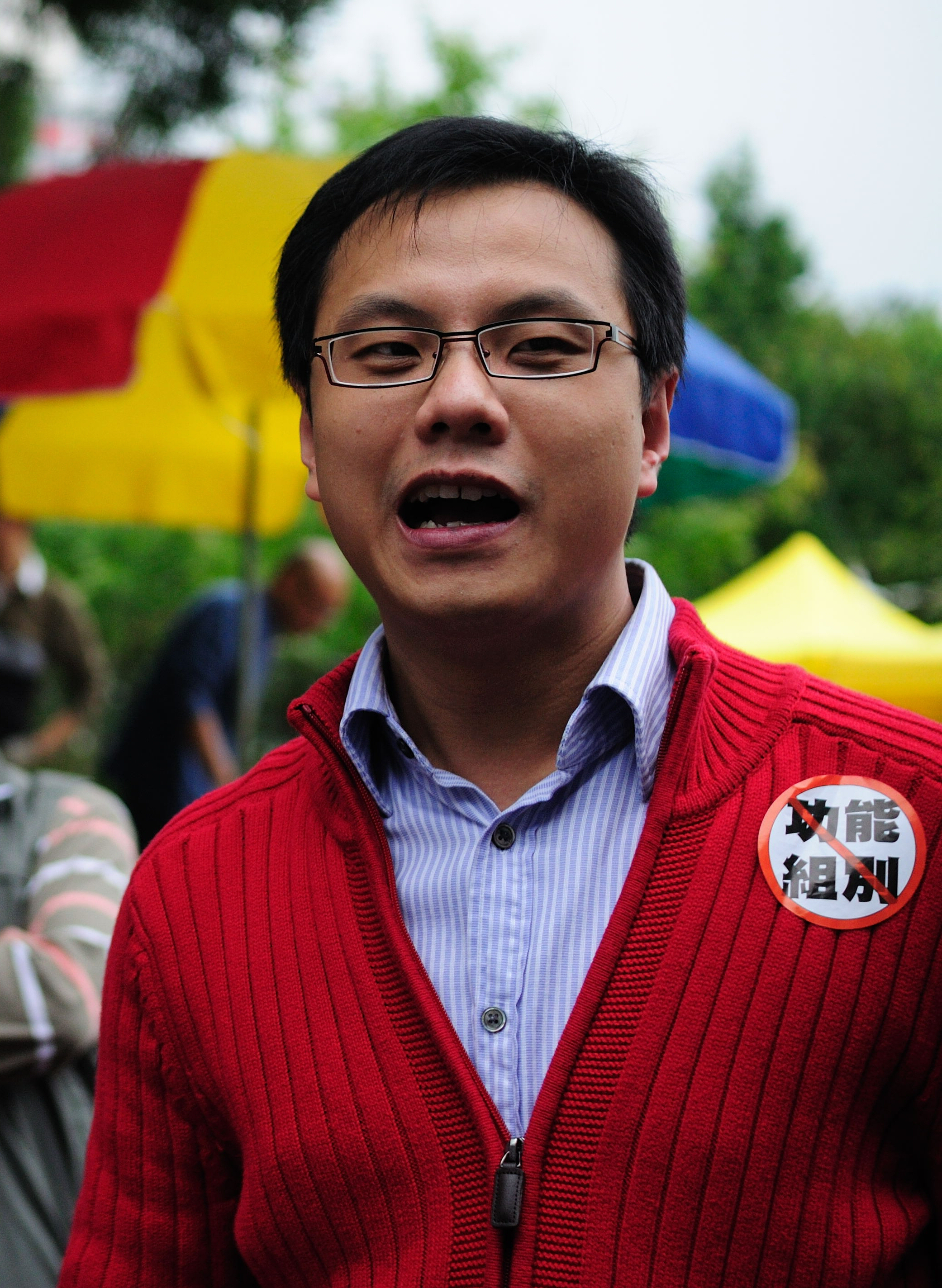 城市論壇 RTHK City Forum (18th April, 2010)